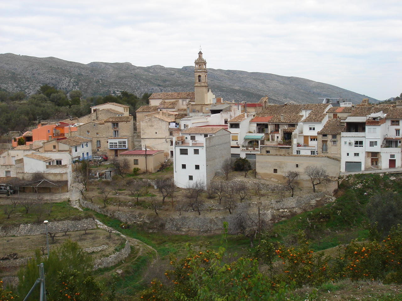 Joseaperez 21:09, 15 January 2006 (UTC)